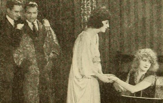 Still from the American film Paying the Piper (1921) with Alma Tell and Dorothy Dickson at right. Published on page 52 of the April 1921 Photoplay magazine.